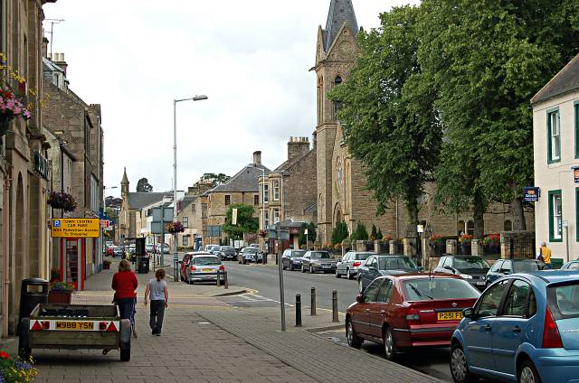 Bonny Gate, Cupar. A Sunday morning shot of the Bonny Gate. It runs from the Crossgate behind me up to the West Port further up the road. This is also the A91 and with no real alternative for traffic especially coaches and heavies it can become very congested.